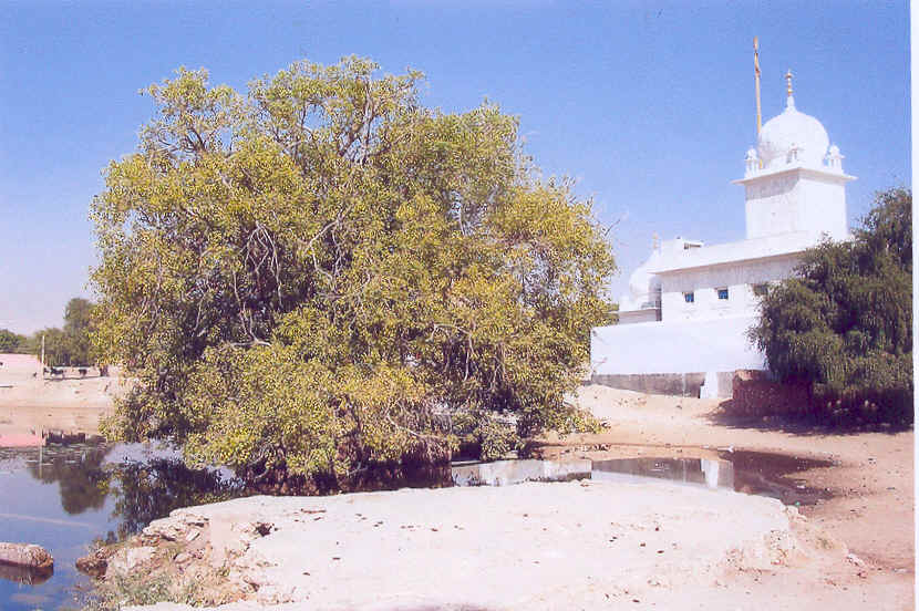 This is picture of village sahawa, the famous Gurudwara can be seen with the 150 year old tree. This picture is taken by me.